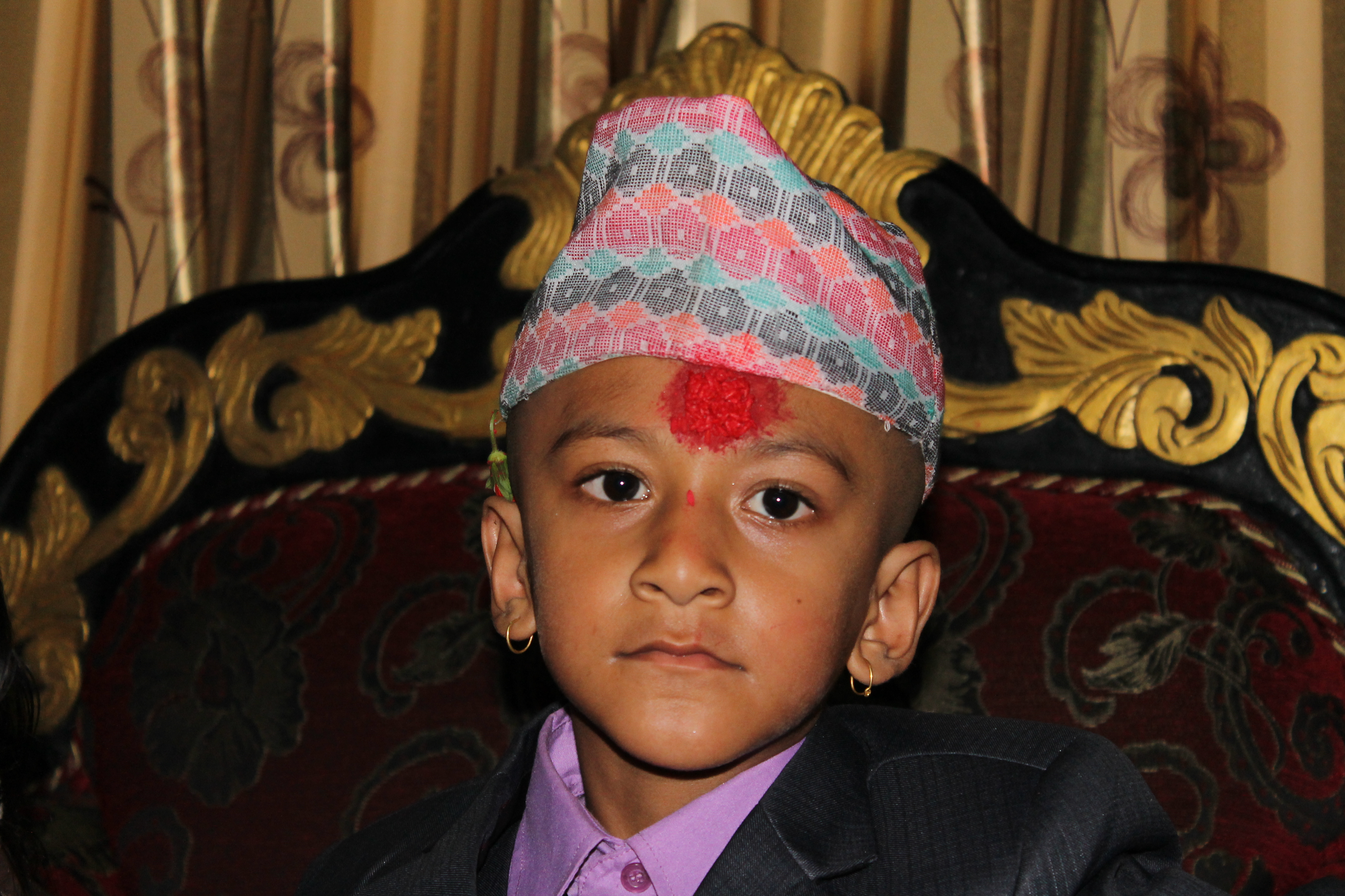 A Nepali boy wearing Dhaka Topi.